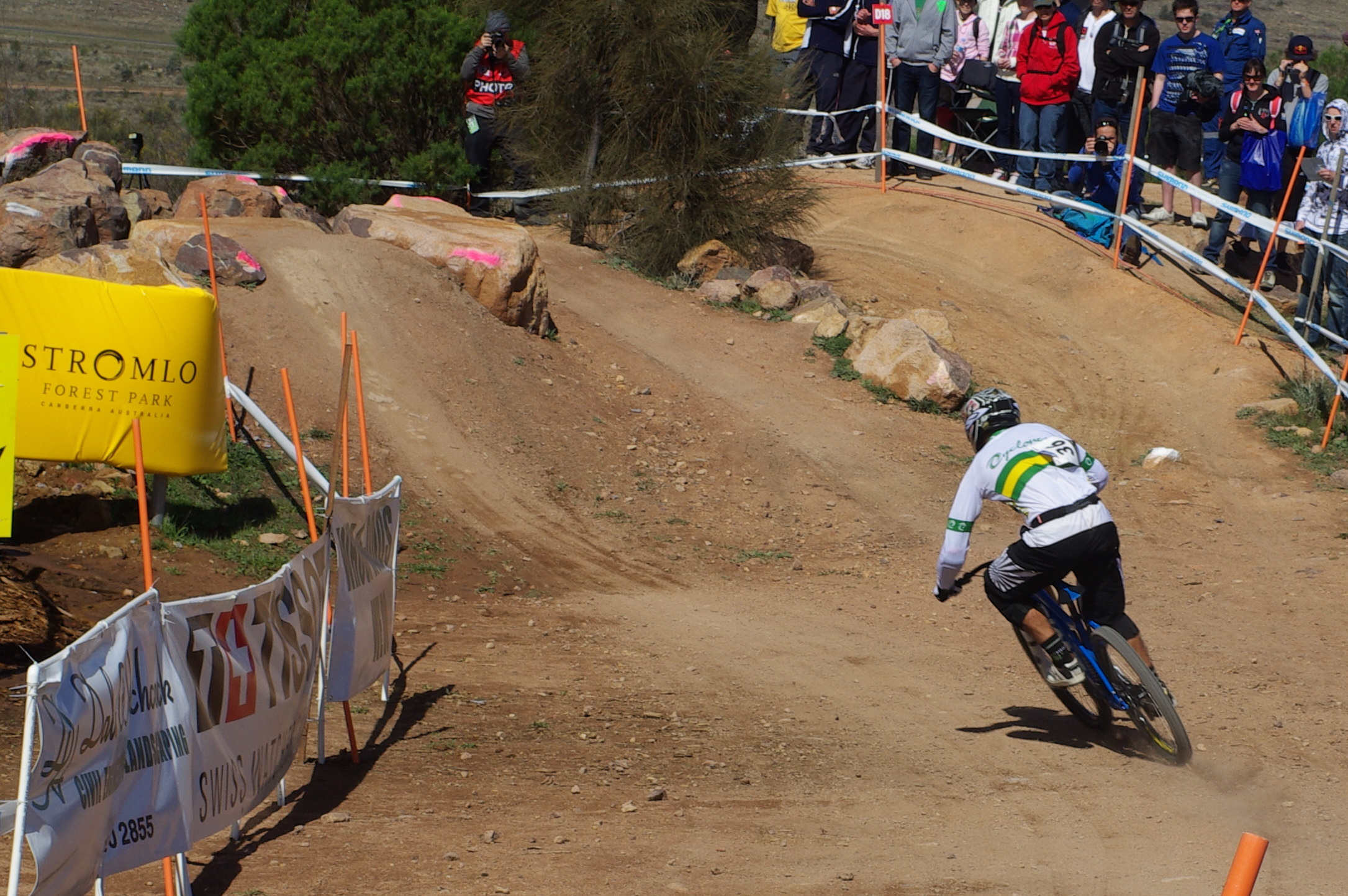 Cross-country mountain biking: Competitors in downhill events at the 2009 UCI Mountain Bike and Trials World Championships held at Mount Stromlo, near Canberra, Australia. Jared Rando, Australia (Men's elite)